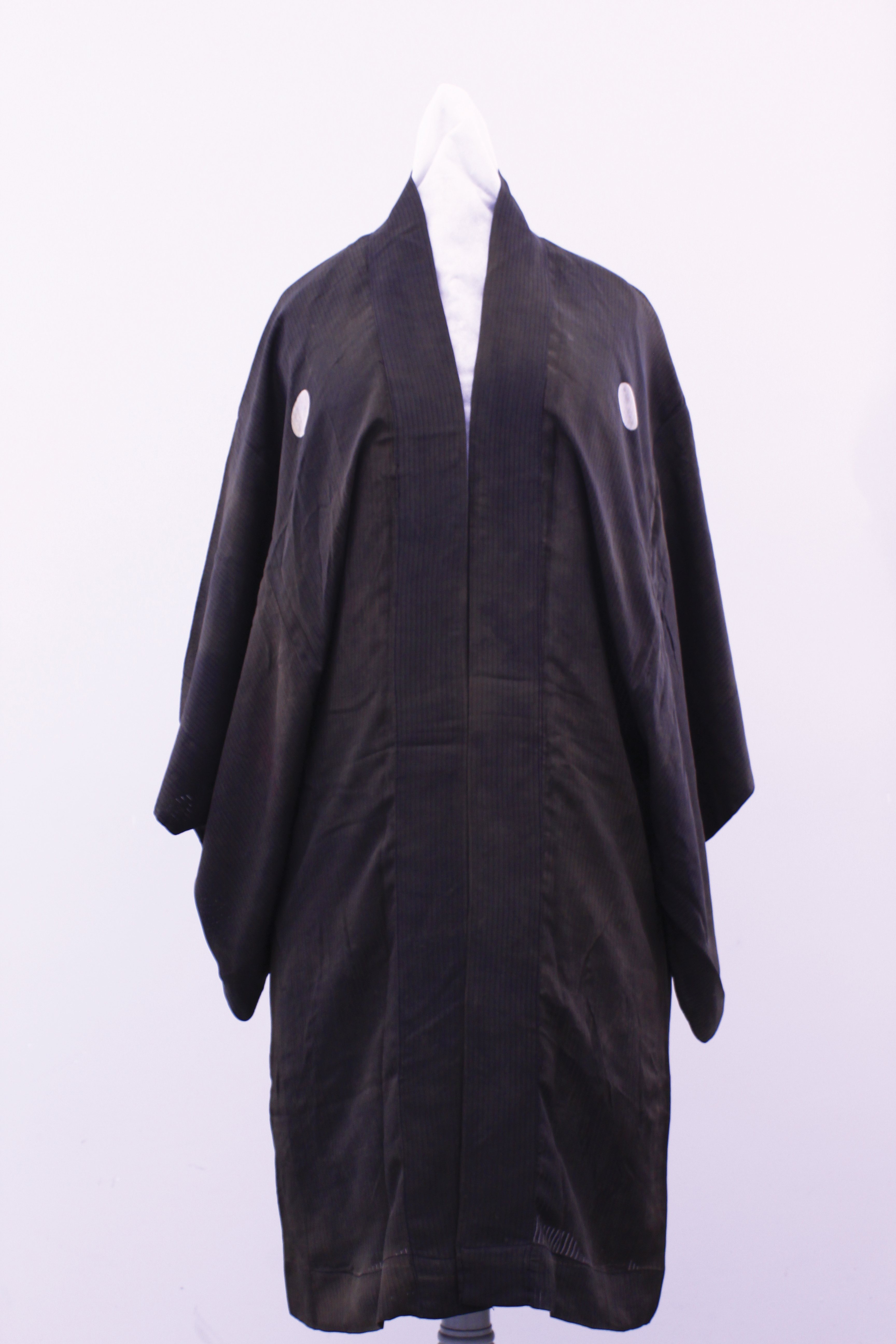 Haori. Fabric. Unknown place of origin, unknown date. Unknown donor. Collection of the Immigration Museum of São Paulo. Haori is a type of coat that is used on top of the kimono on cold days. The one that is portrayed in the photography is masculine and does not have lining. One of this piece’s details: it has a subtle circular drawing in five different places. This drawing probably represents a family emblem, known as “eight-arrow wheel”.